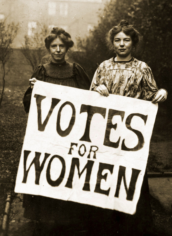 WSPU leaders Annie Kenney (left) and Christabel Pankhurst